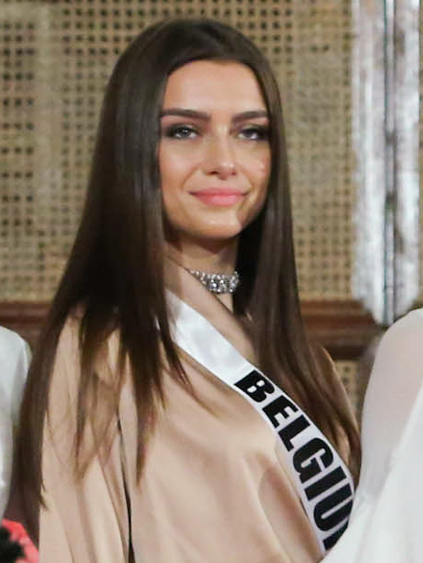 President Rodrigo Roa Duterte and Tourism Secretary Wanda Teo are flanked by candidates of the 65th Miss Universe during a photo session at the Rizal Hall in Malacañan Palace on January 23, 2017. ALBERT ALCAIN/Presidential Photo